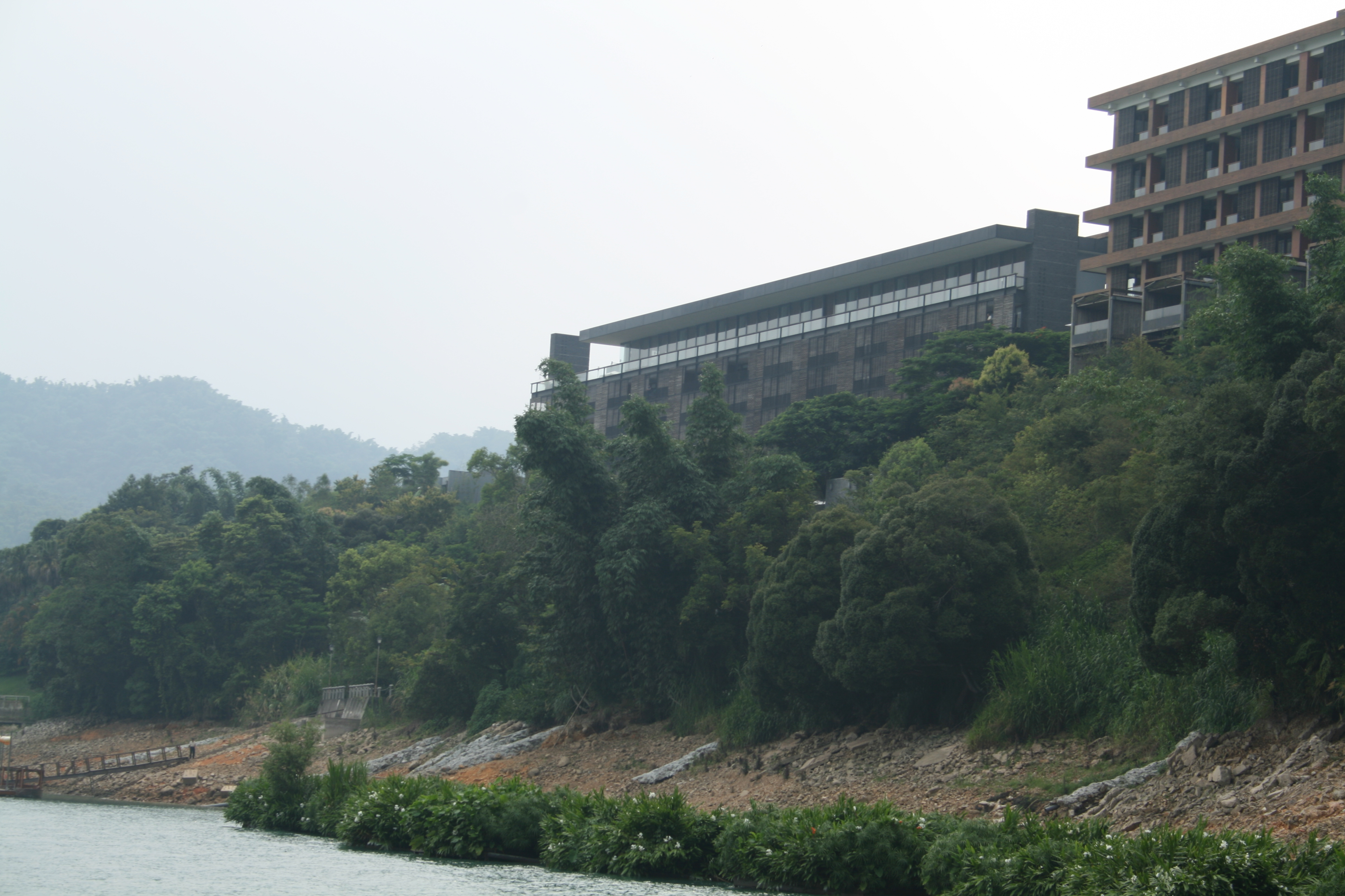 The Lalu Hotel (taken from the lake)